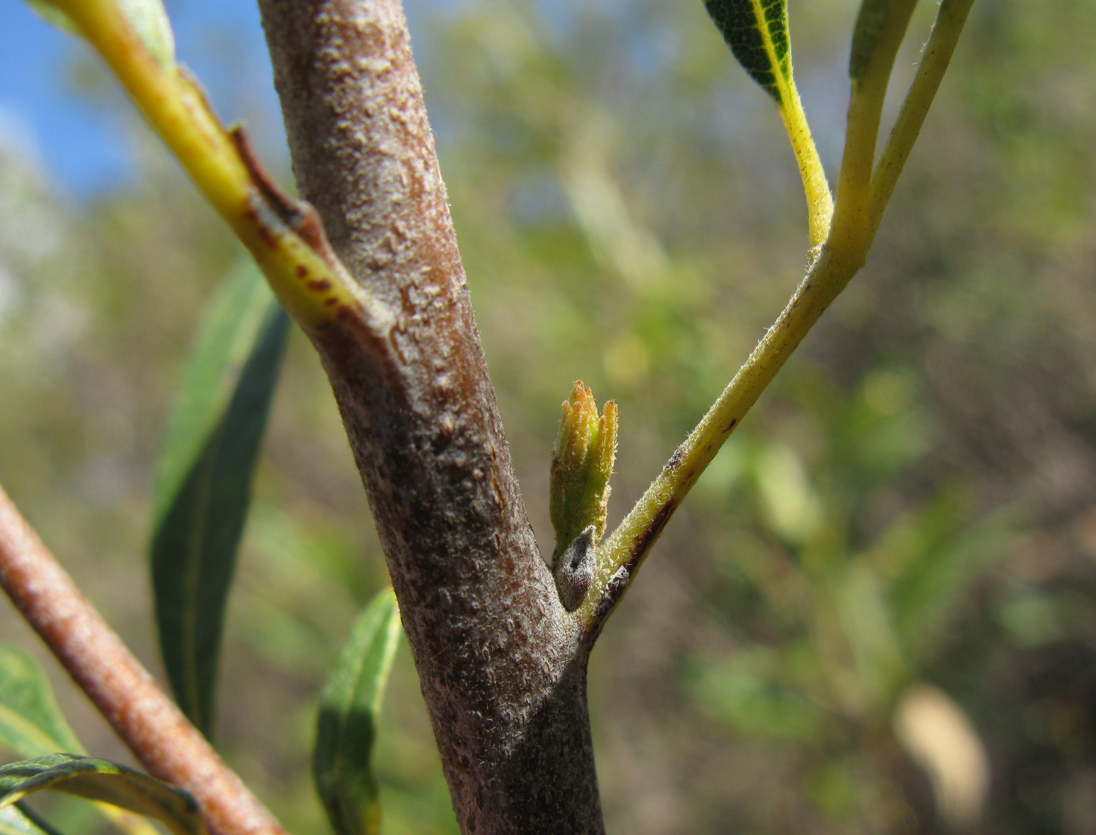 The scaly cataphylls protect the axillary branch buds until the new branches grow and split the cataphylls apart, as seen here.